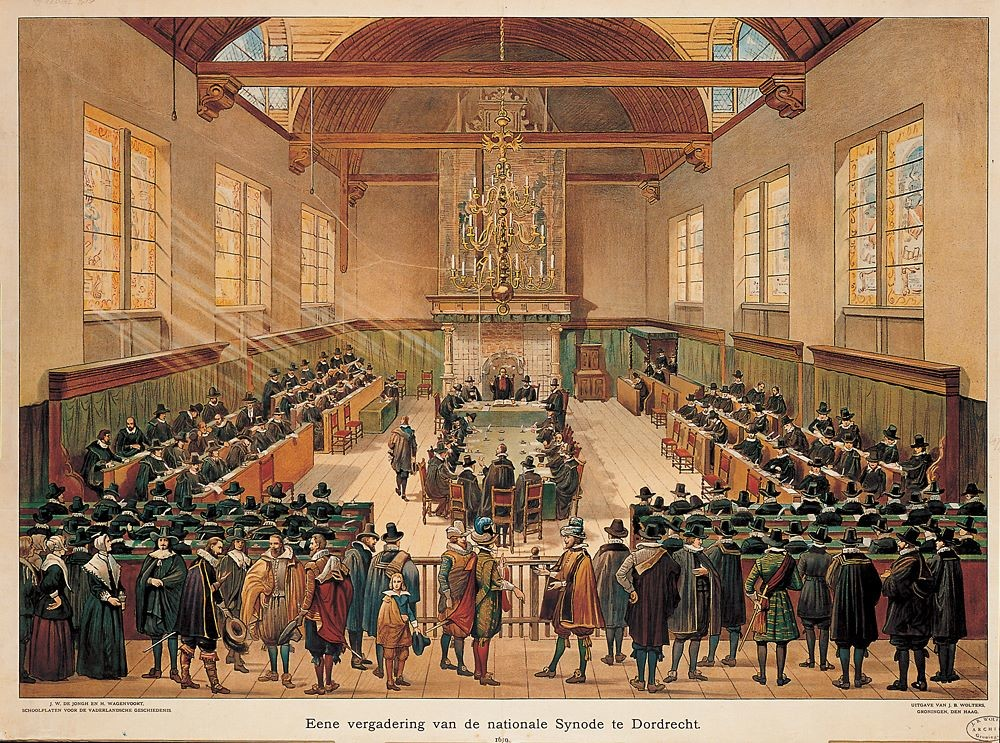 J.W. de Jongh and M. Wagenvoort: Eene vergadering van de Nationale Synode te Dordrecht 1619. Schoolplaat J.B. Wolters (A session of the National Synod at Dordrecht, the Netherlands 1619. Large Dutch history educational illustration. Publisher J.B. Wolters, Groningen Den Haag (period 1915-1931)